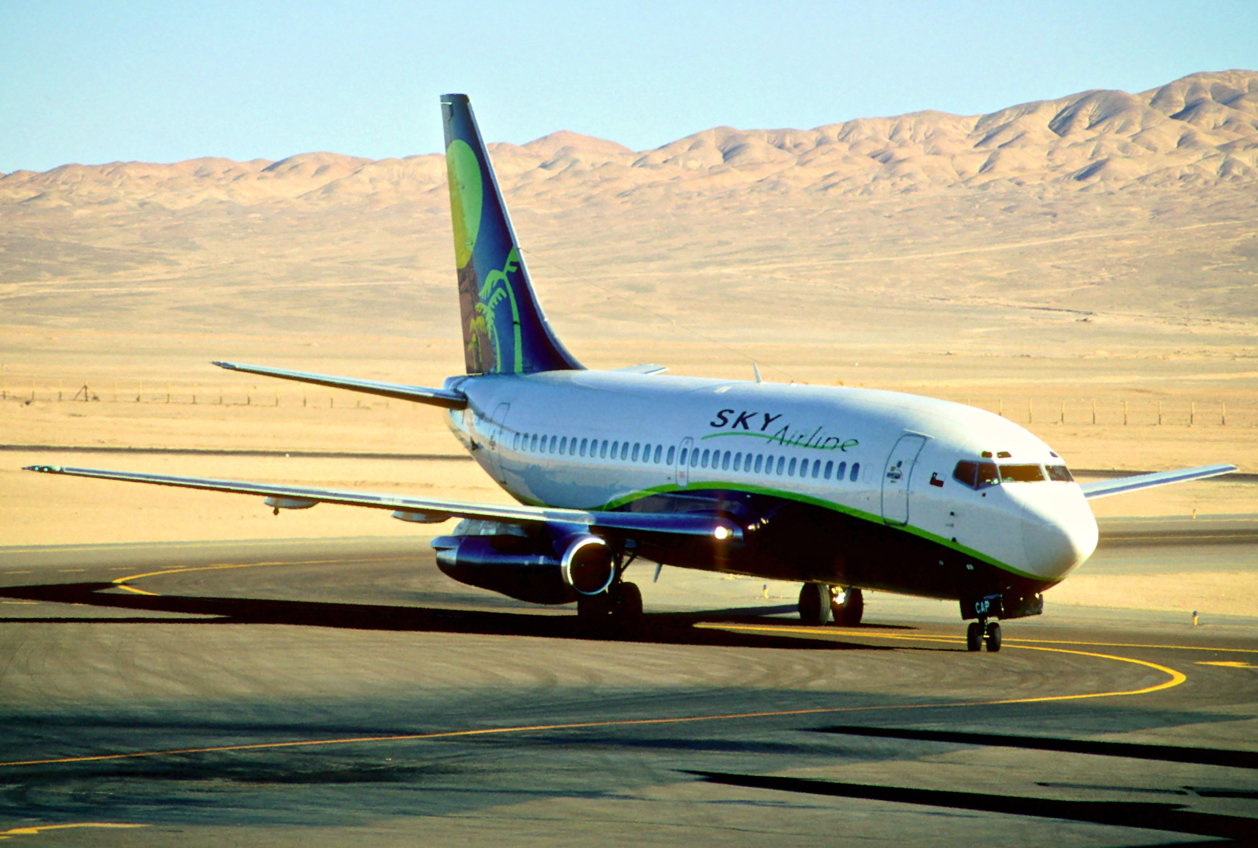 First flight: April 4, 1980... 17/04/1980 British Airtours G-BGJF 14/04/1988 Caledonian Airways G-BGJF 15/11/1988 British Airways G-BGJF 07/04/1995 Sterling Airlines G-BGJF 29/10/1995 British Airways G-BGJF 19/07/1999 LADECO CC-CZM 01/07/2001 Sky Airline